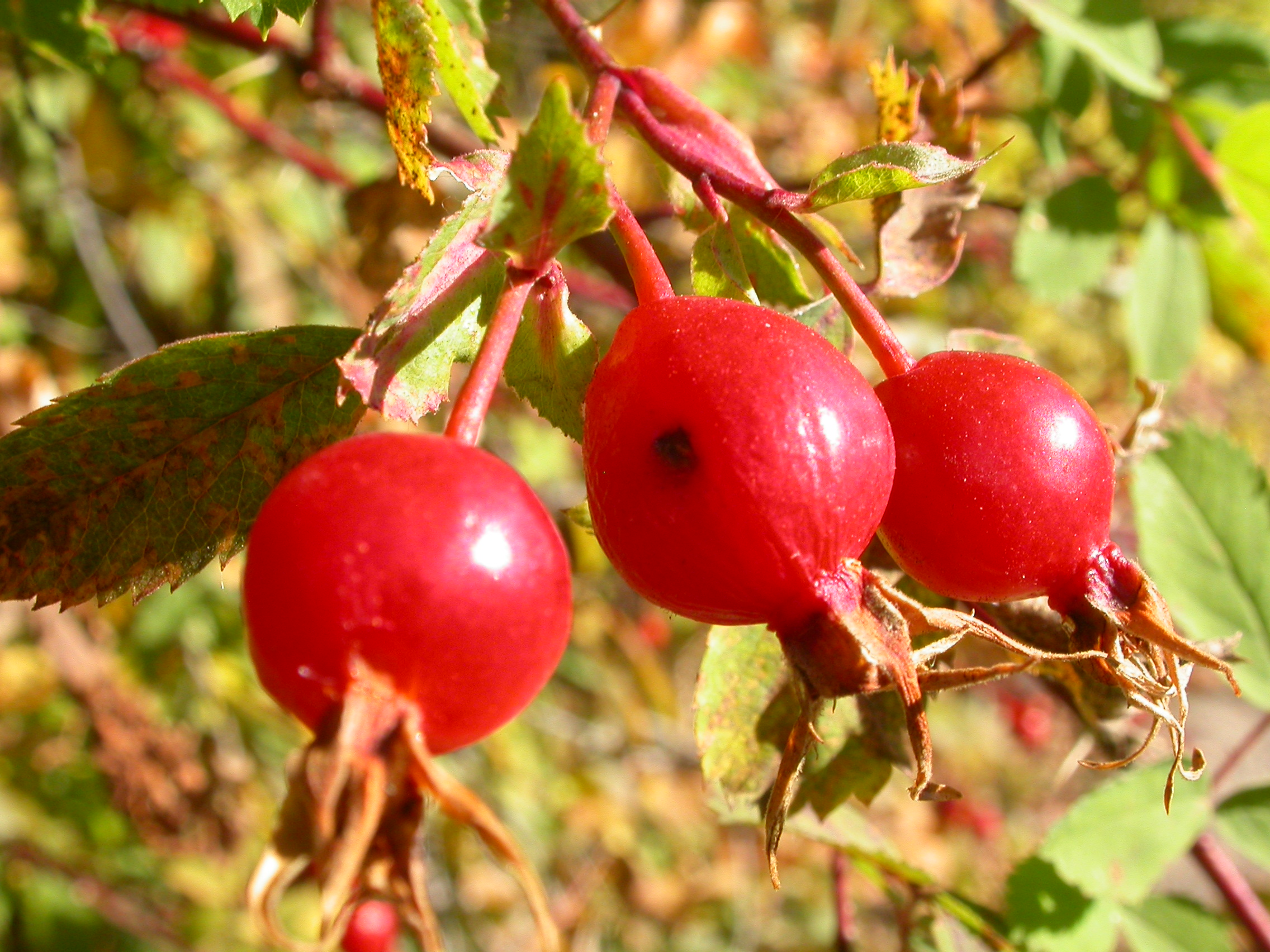 The hip fruit is similar to a pome in that the hypanthium grows around the fruits but the fruit produced by a flower is a cluster of dry achenes.